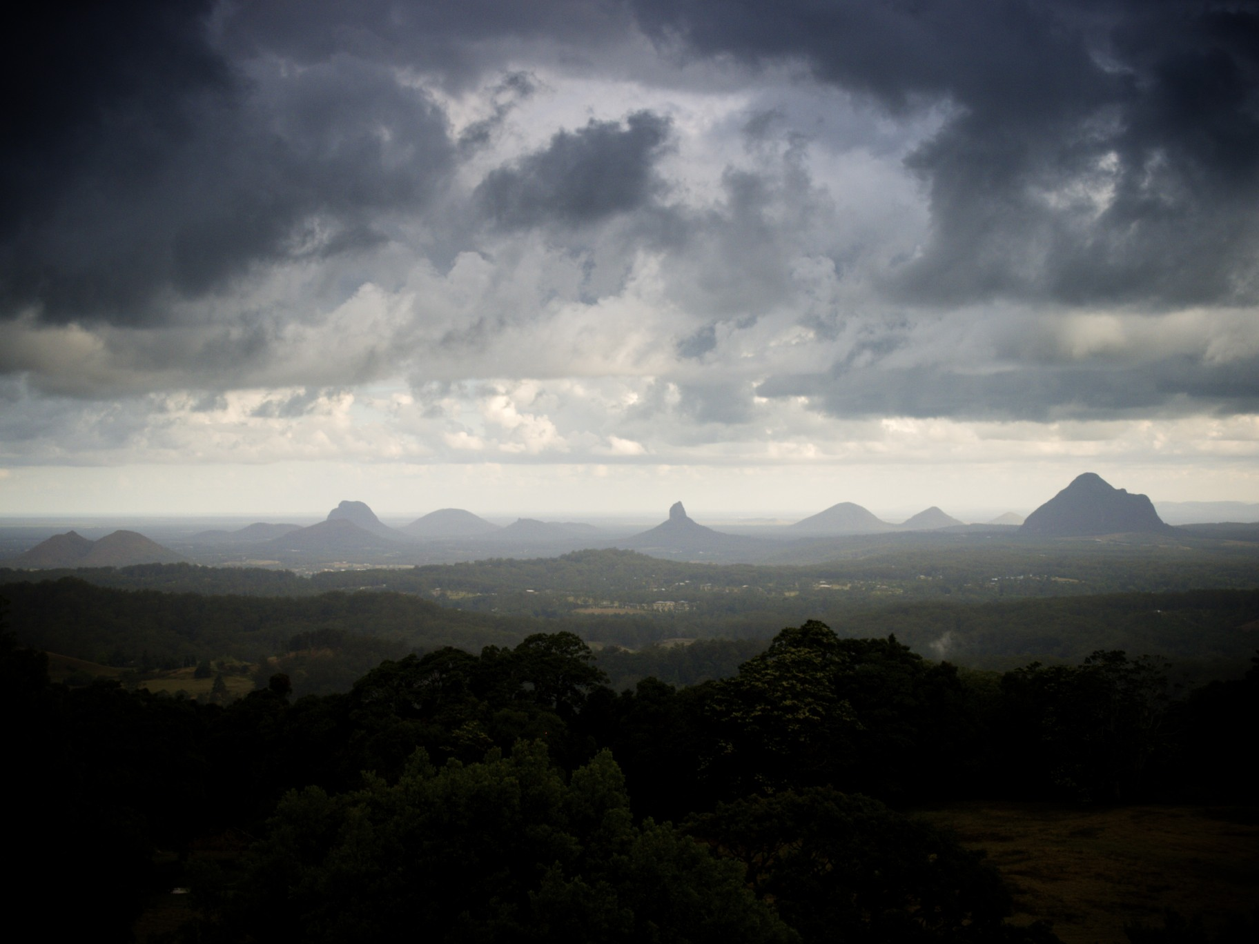 Glass House Montains National Park. Australia